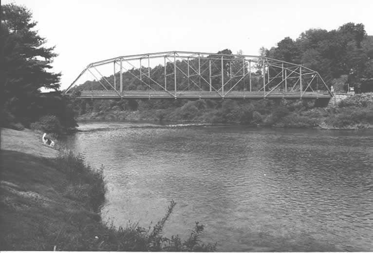 Side of the Hogback Bridge, which carries Legislative Route 869 over the West Branch of the Susquehanna River near Curwensville in Lawrence Township, Clearfield County, Pennsylvania, United States. Built in 1893, this Pennsylvania petit truss bridge is listed on the National Register of Historic Places.